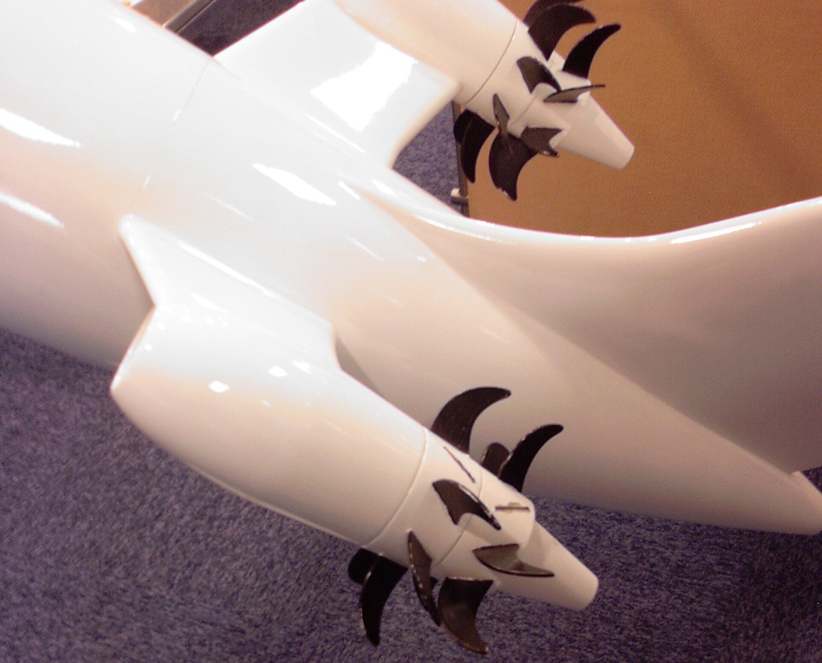 A model aircraft equip with two open rotors.